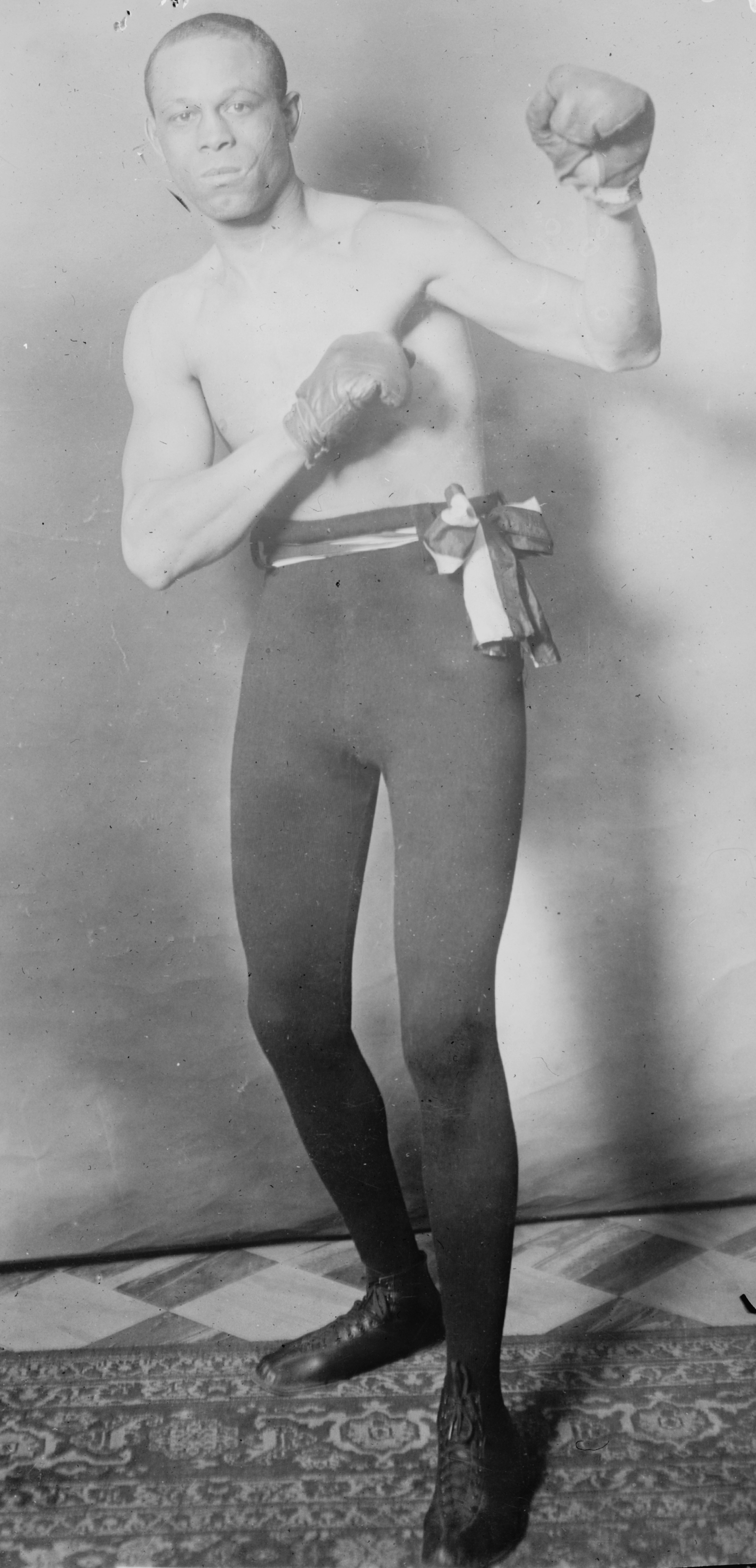 Bain News Service,, publisher. Jack Blackburn, 2/17/14 2/17/14 (date created or published later by Bain) 1 negative : glass ; 5 x 7 in. or smaller. Notes: Title from unverified data provided by the Bain News Service on the negatives or caption cards. Forms part of: George Grantham Bain Collection (Library of Congress). Format: Glass negatives. Repository: Library of Congress, Prints and Photographs Division, Washington, D.C. 20540 USA, General information about the Bain Collection is available at Persistent URL: Call Number: LC-B2- 2979-8